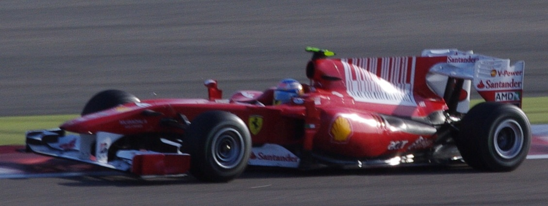 Alonso Leads to Victory